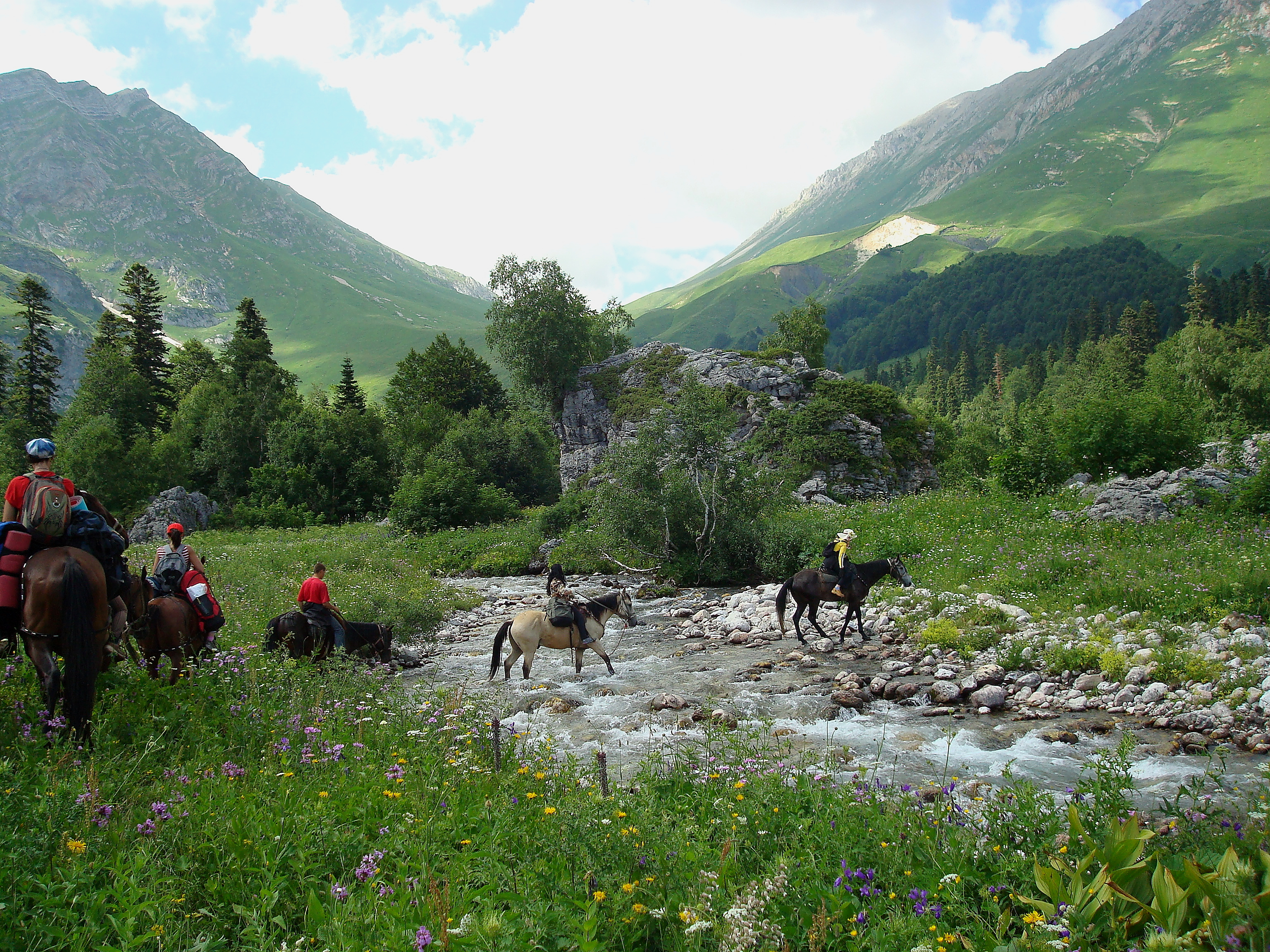 Travel astride horses in Caucasus Biosphere Reserve.